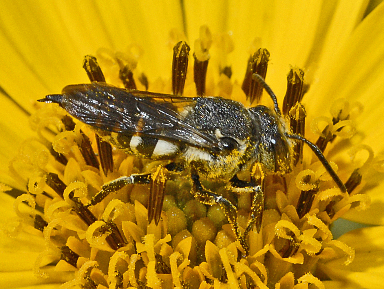 Female of Coelioxys species, from Alessandria, Italy